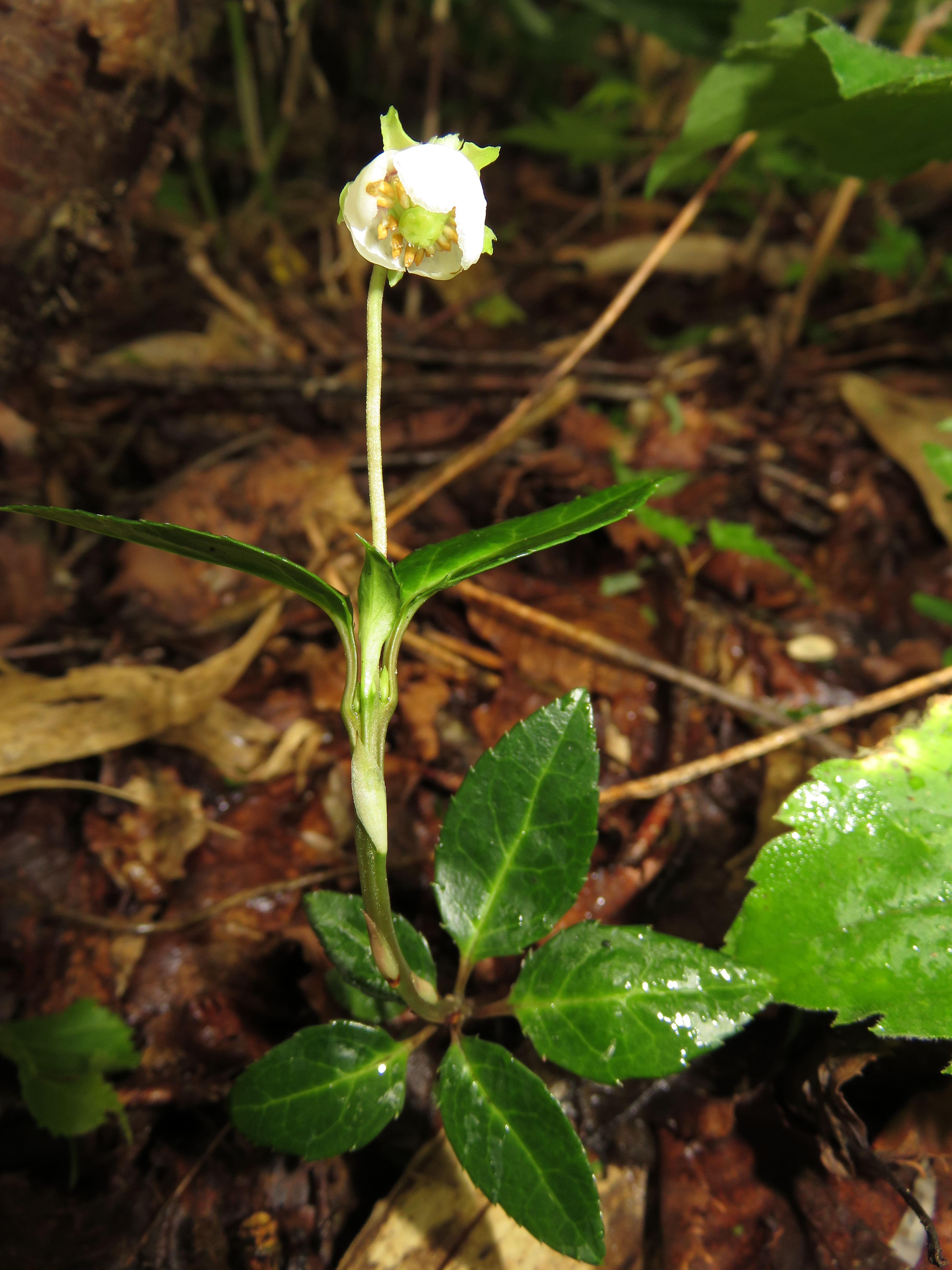 Chimaphila japonica, Aizu area, Fukushima pref., Japan